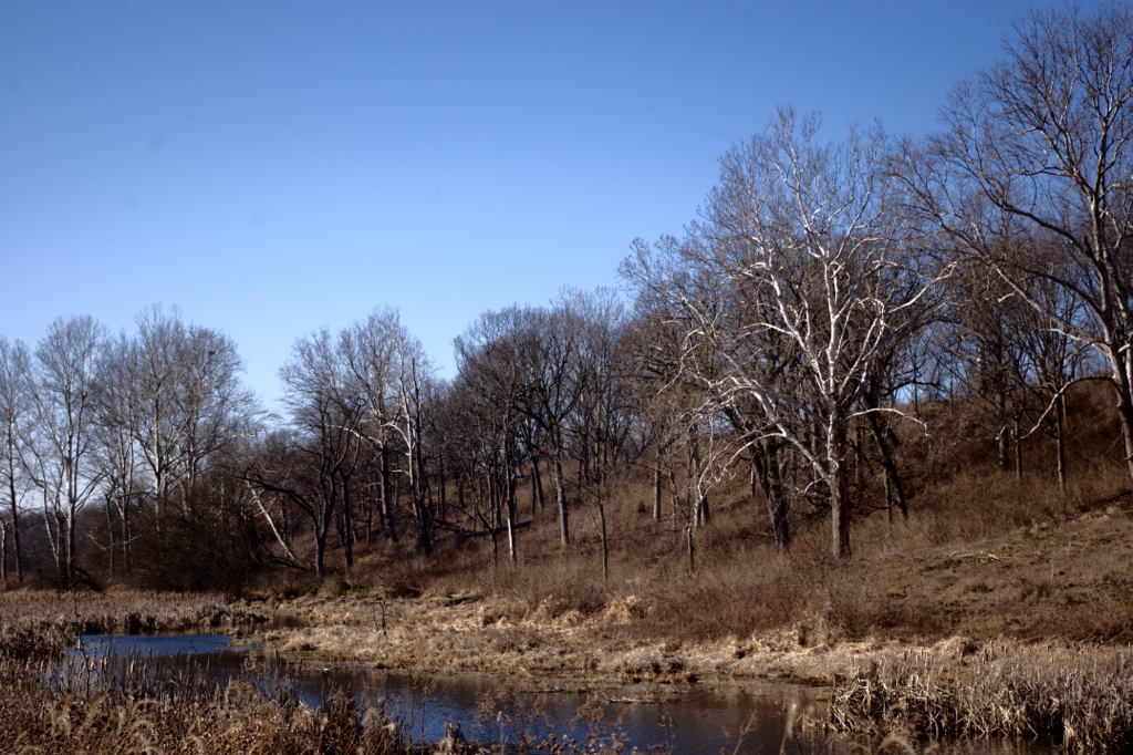 Prophetstown State Park, near Lafayette IN.